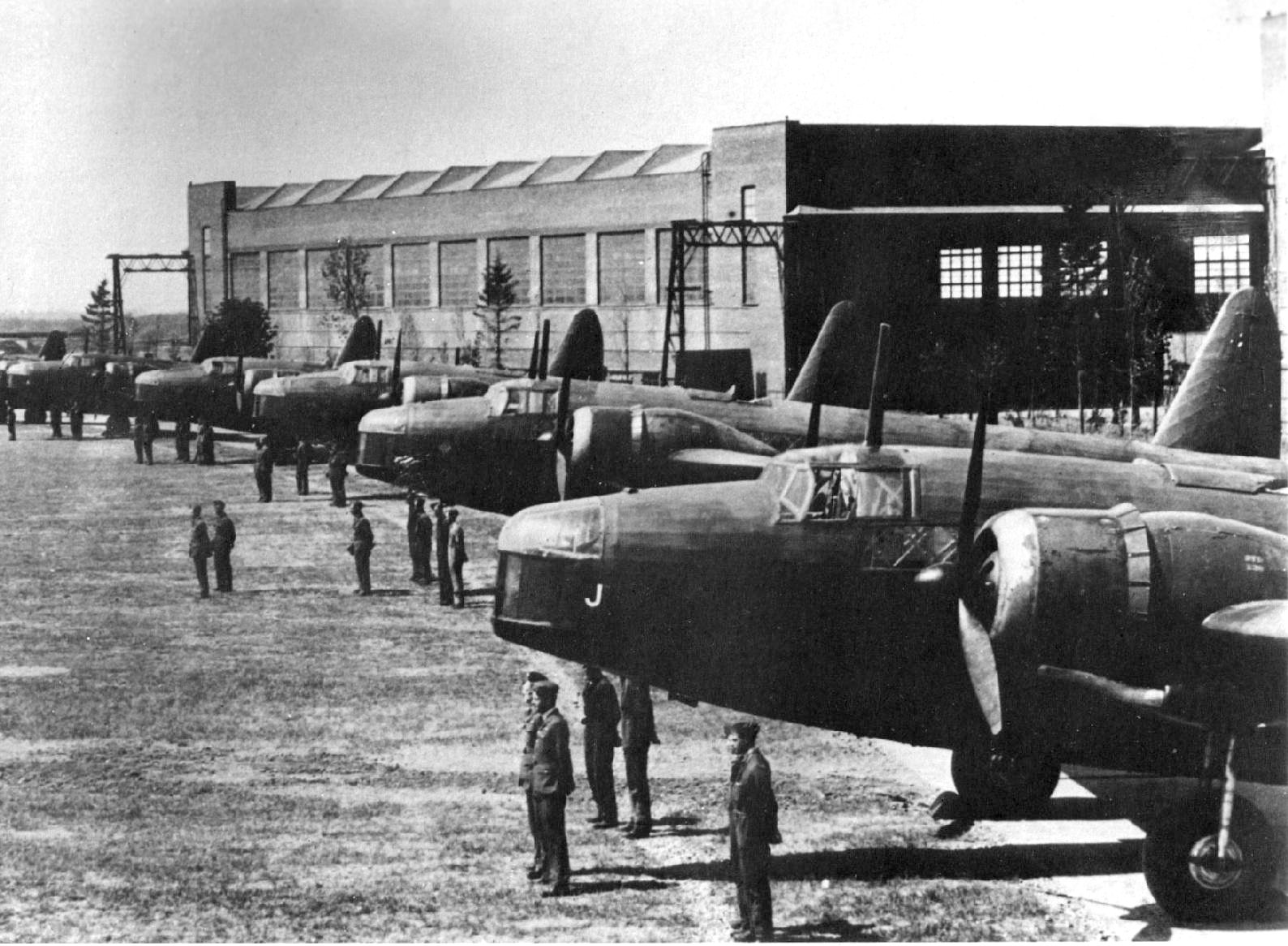 Vickers Wellington Bombers of the RAF at RAF Stradishall on the 10th of July 1939. Ready to fly to Brussells and Paris as a show of strength from the RAF.